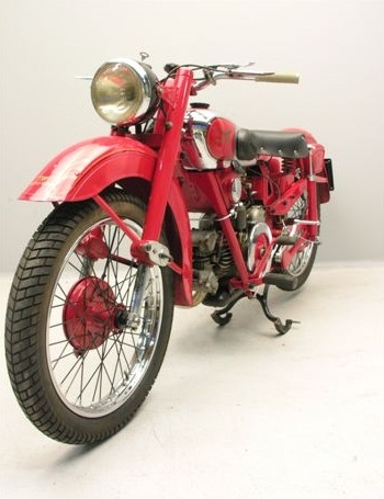 Moto Guzzi Airone 250 cc from 1947 with upside down telescopic suspention